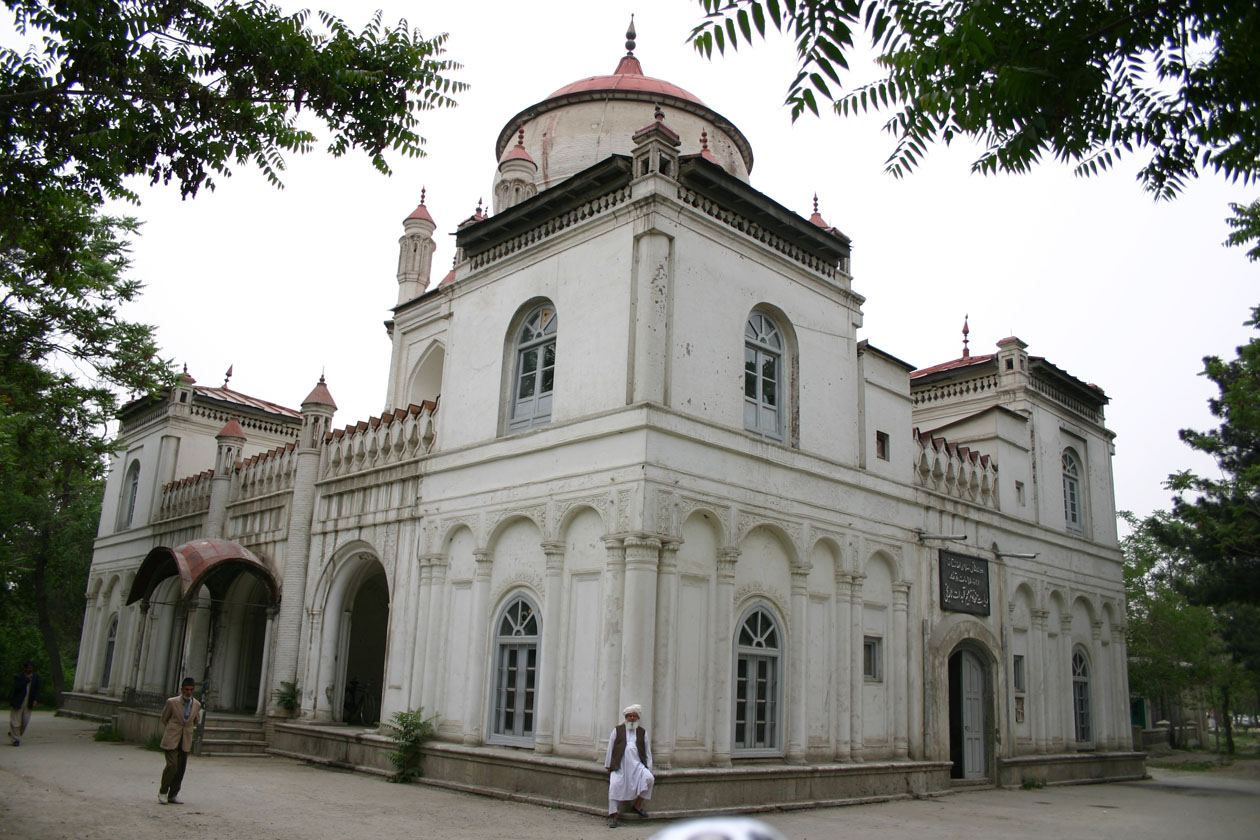 The mausoleum of Abdur Rahman Khan, King of Afghanistan from 1880 to 1901. It is located on top of a large forested hill (called Bagh-e Bala) in the Afghan capital of Kabul.